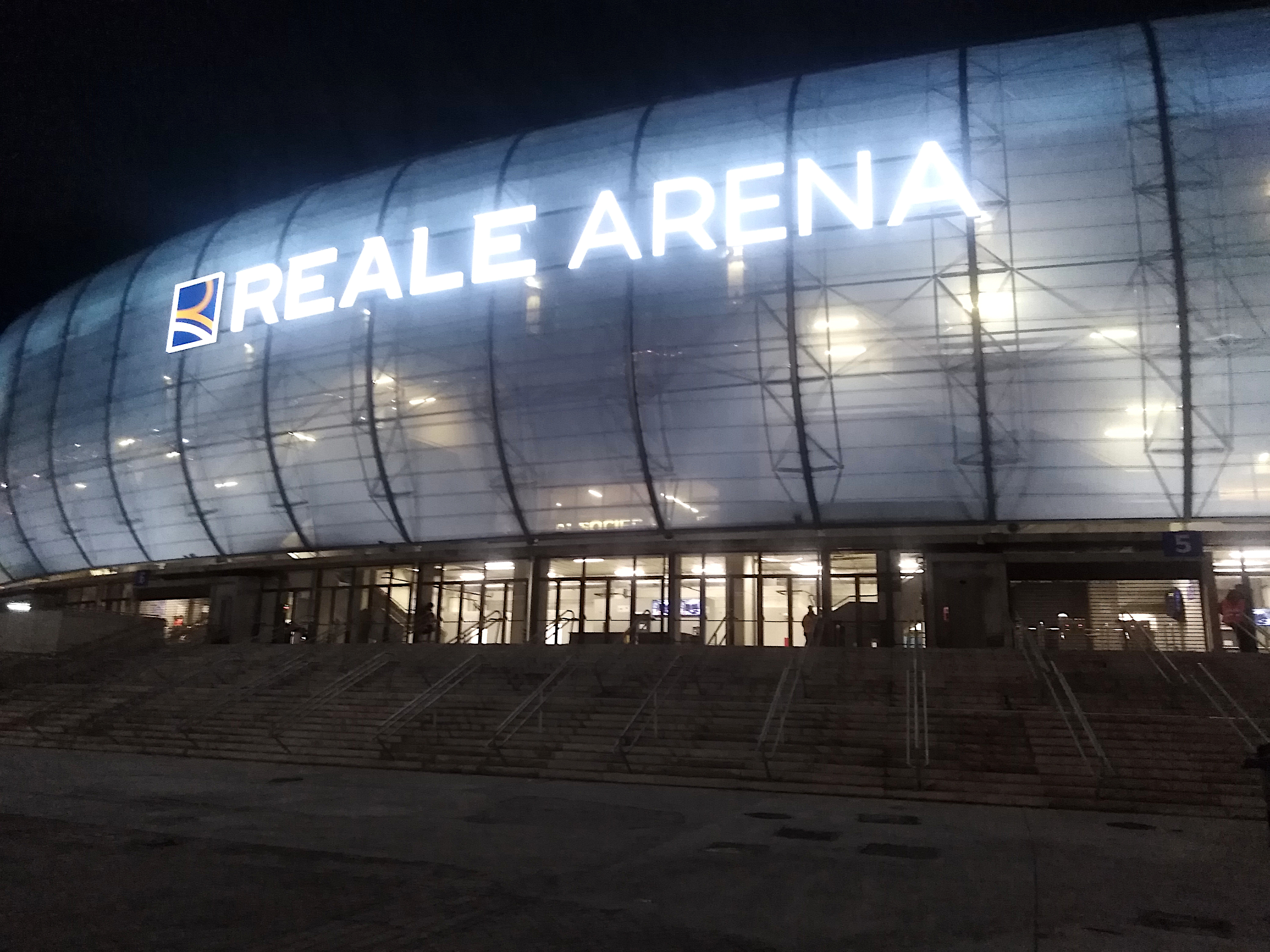 Anoeta stadium at night, Donostia-San Sebastian, Gipuzkoa, Basque Country